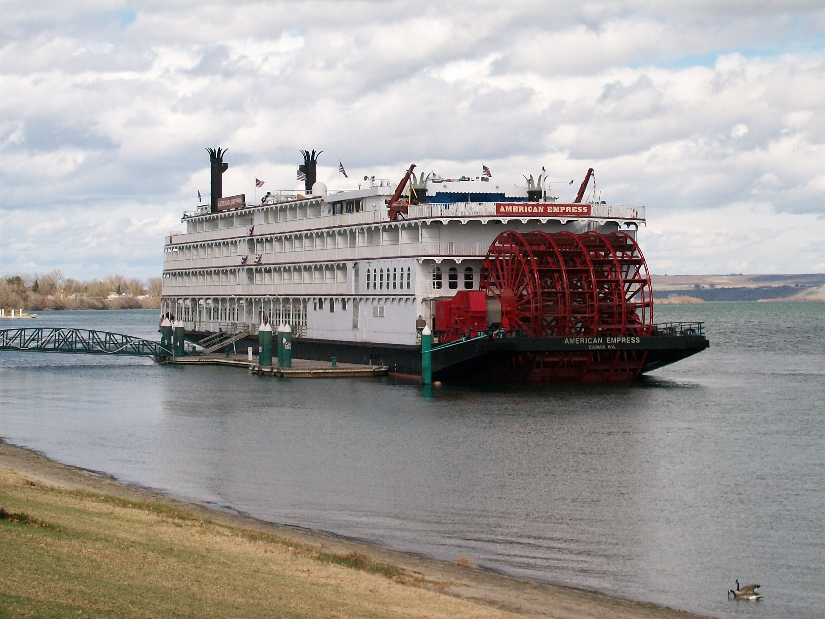 American Empress, formerly known as the Empress of the North, docked at Howard Amon Park in Richland, Washington (stern view).